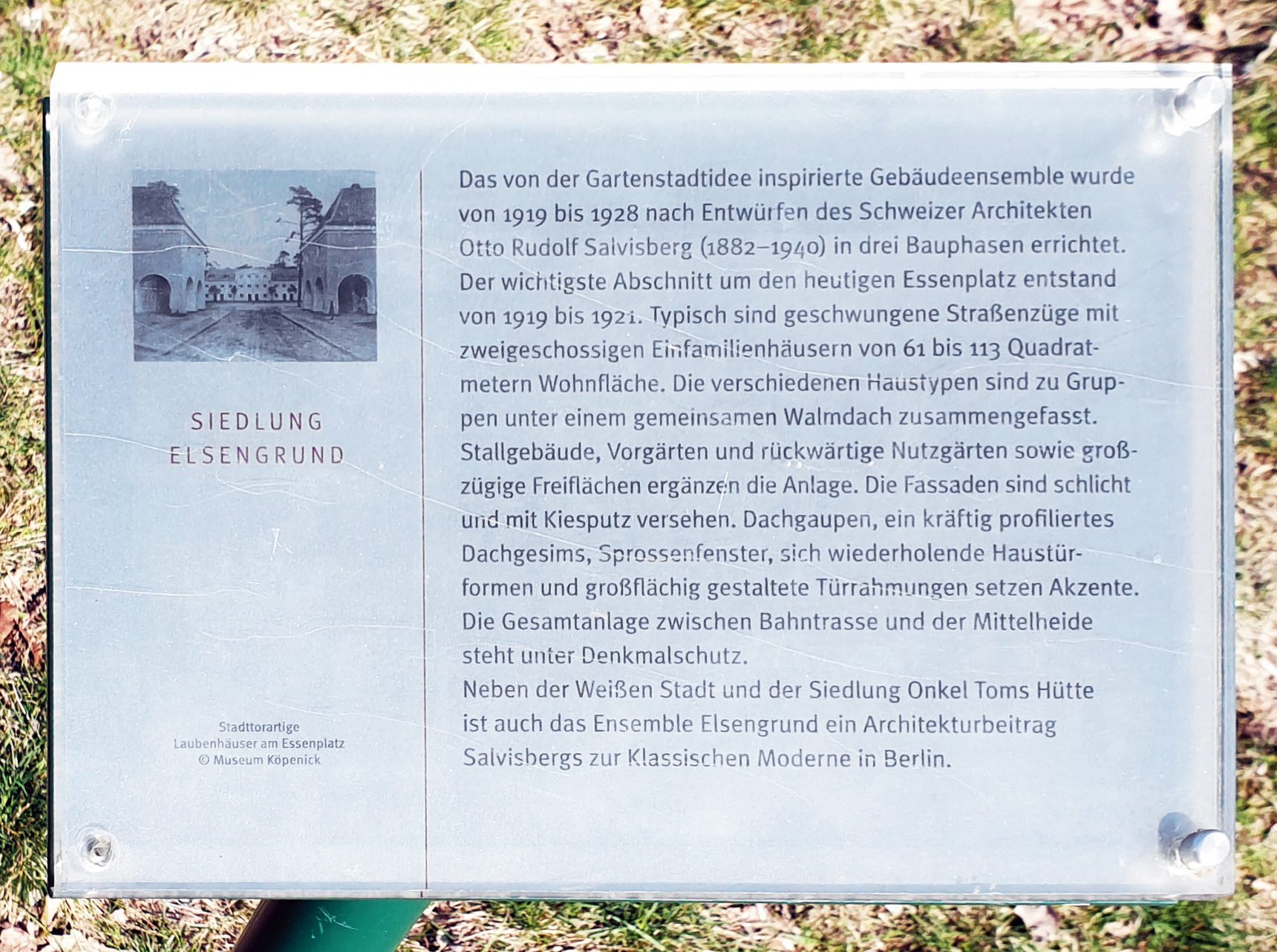 Memorial plaque, Siedlung Elsengrund, Stellingdamm 24, Berlin-Köpenick, Deutschland